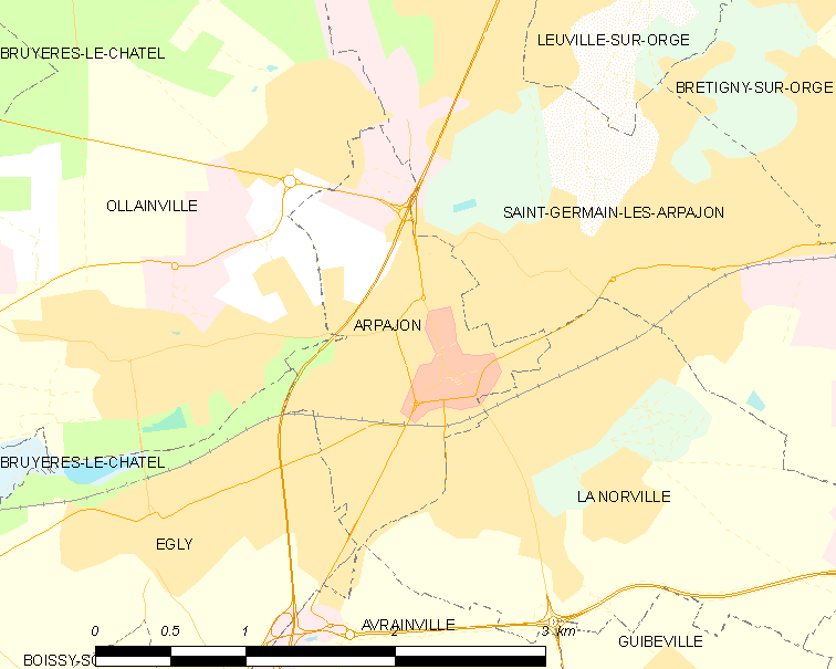 Map of French municipality Arpajon